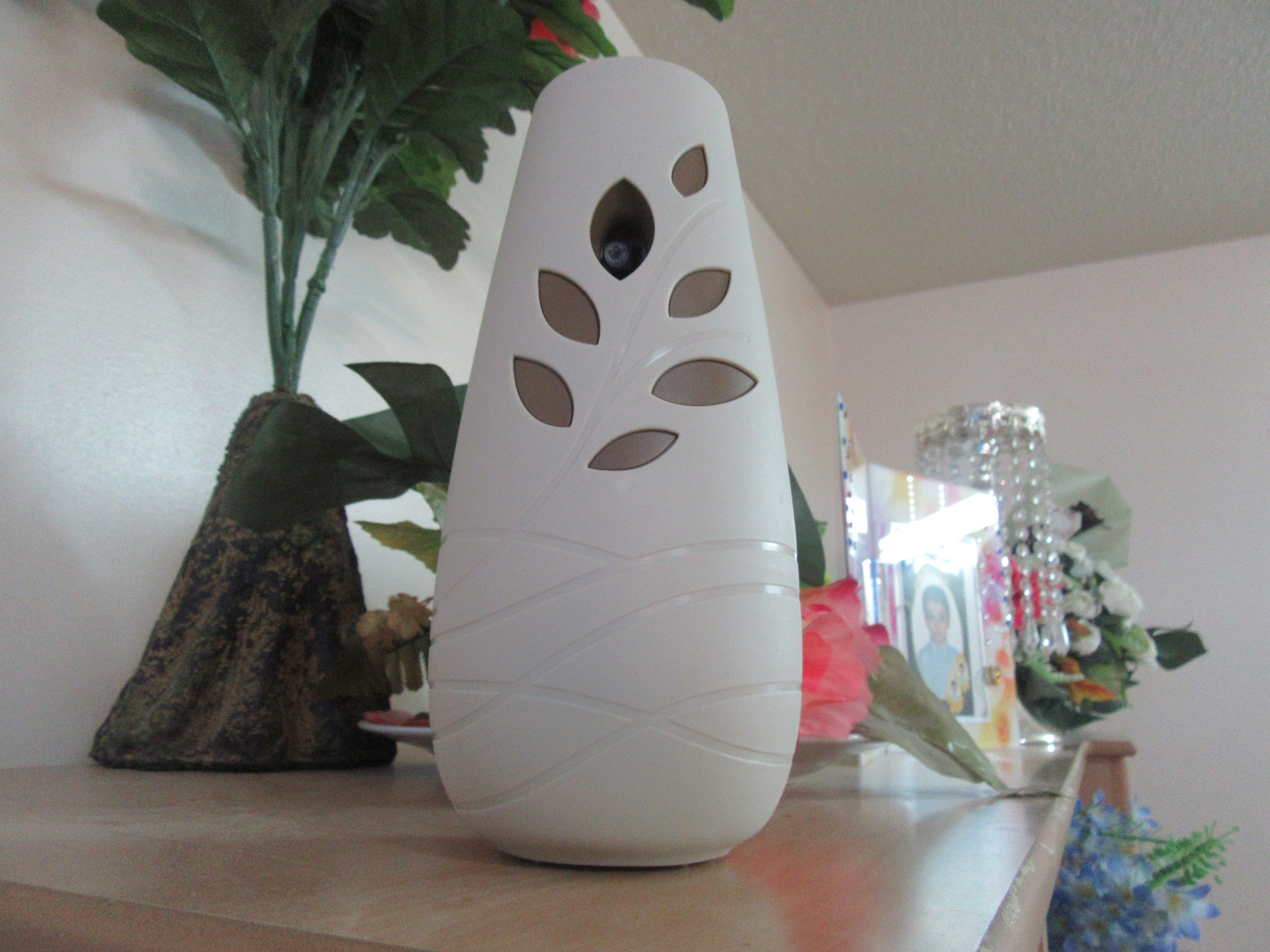 An automatic air freshner